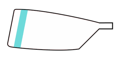 design of Njord blades